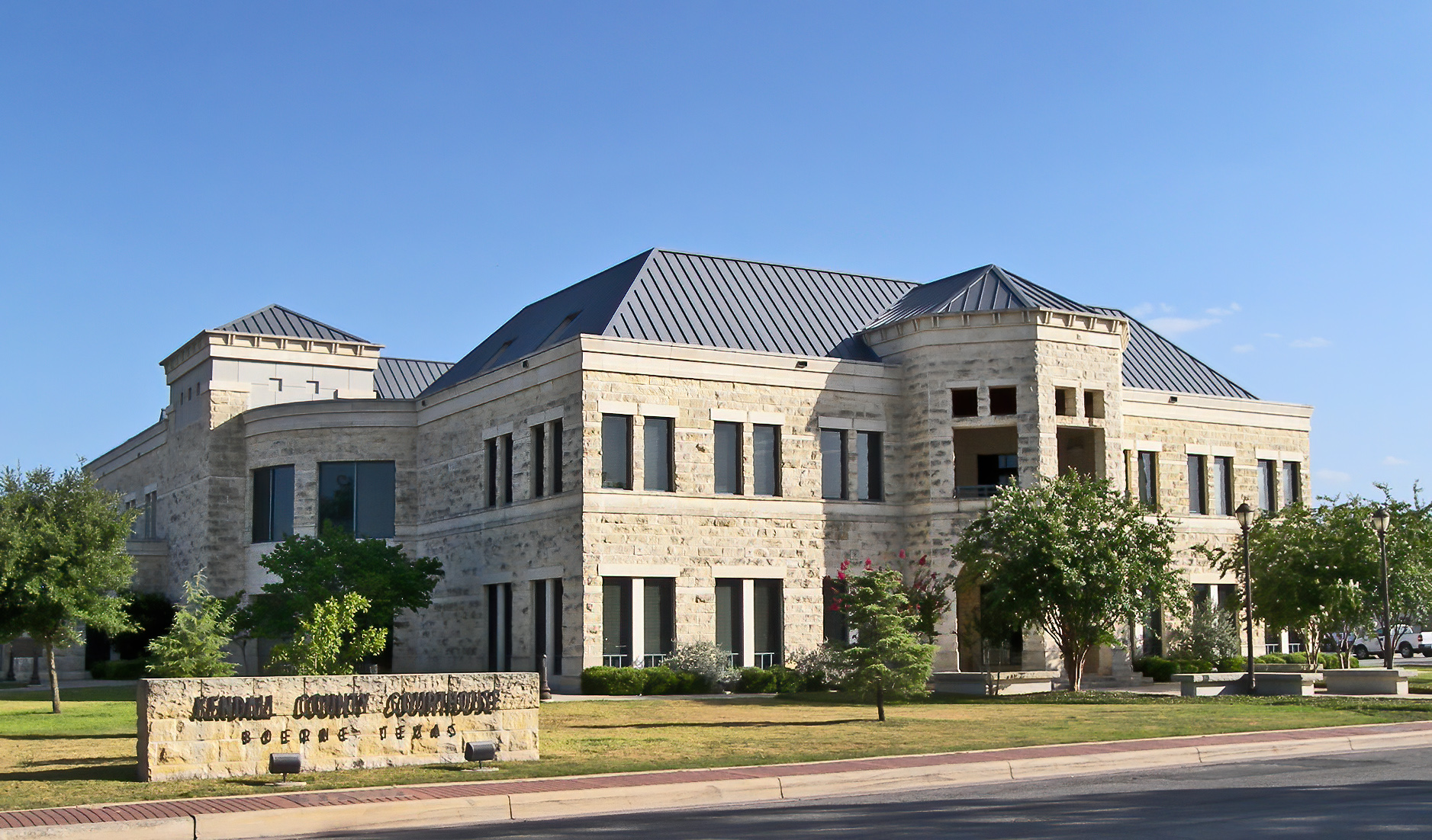 The current Kendall County Courthouse located in Boerne, Texas, United States was built in 1998.